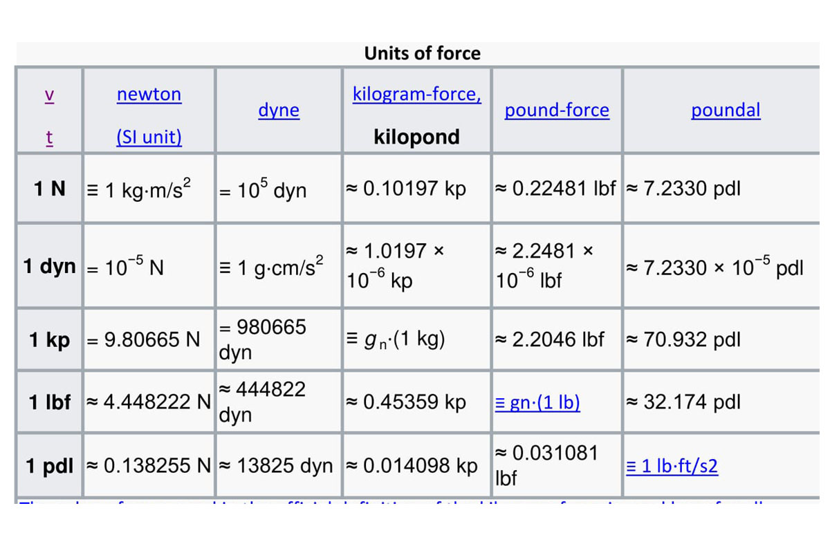 units of forces